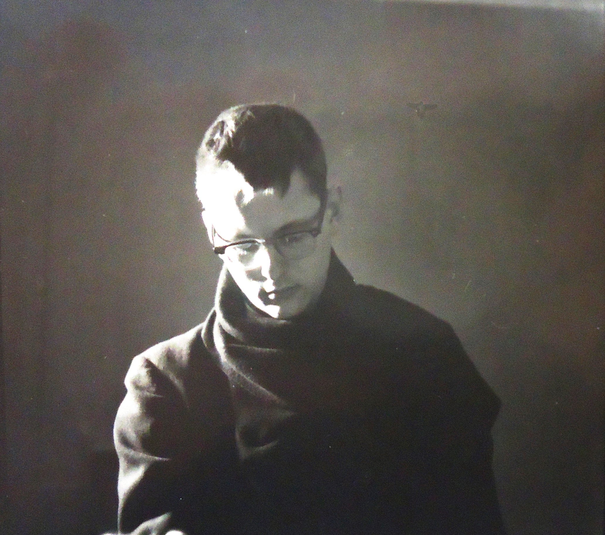 Photograph of Joseph Hunter Byrd